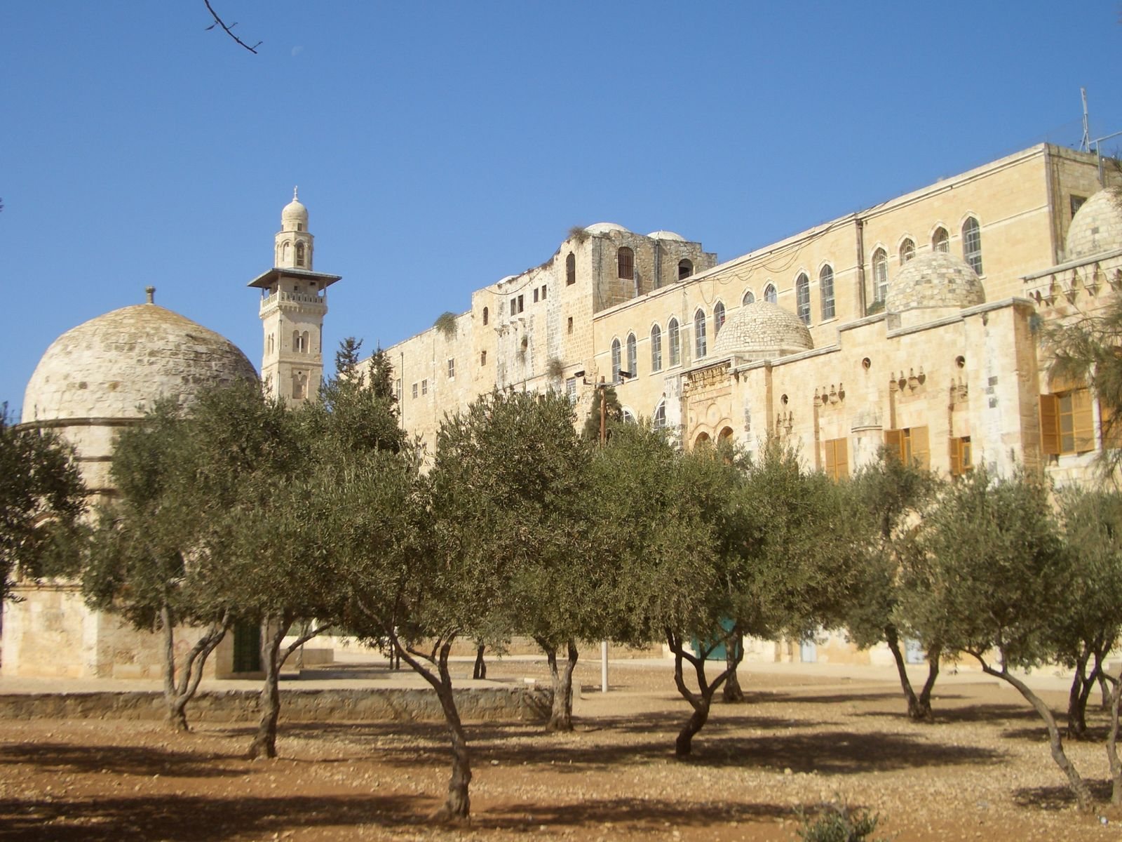 Al-Aqsa Mosque